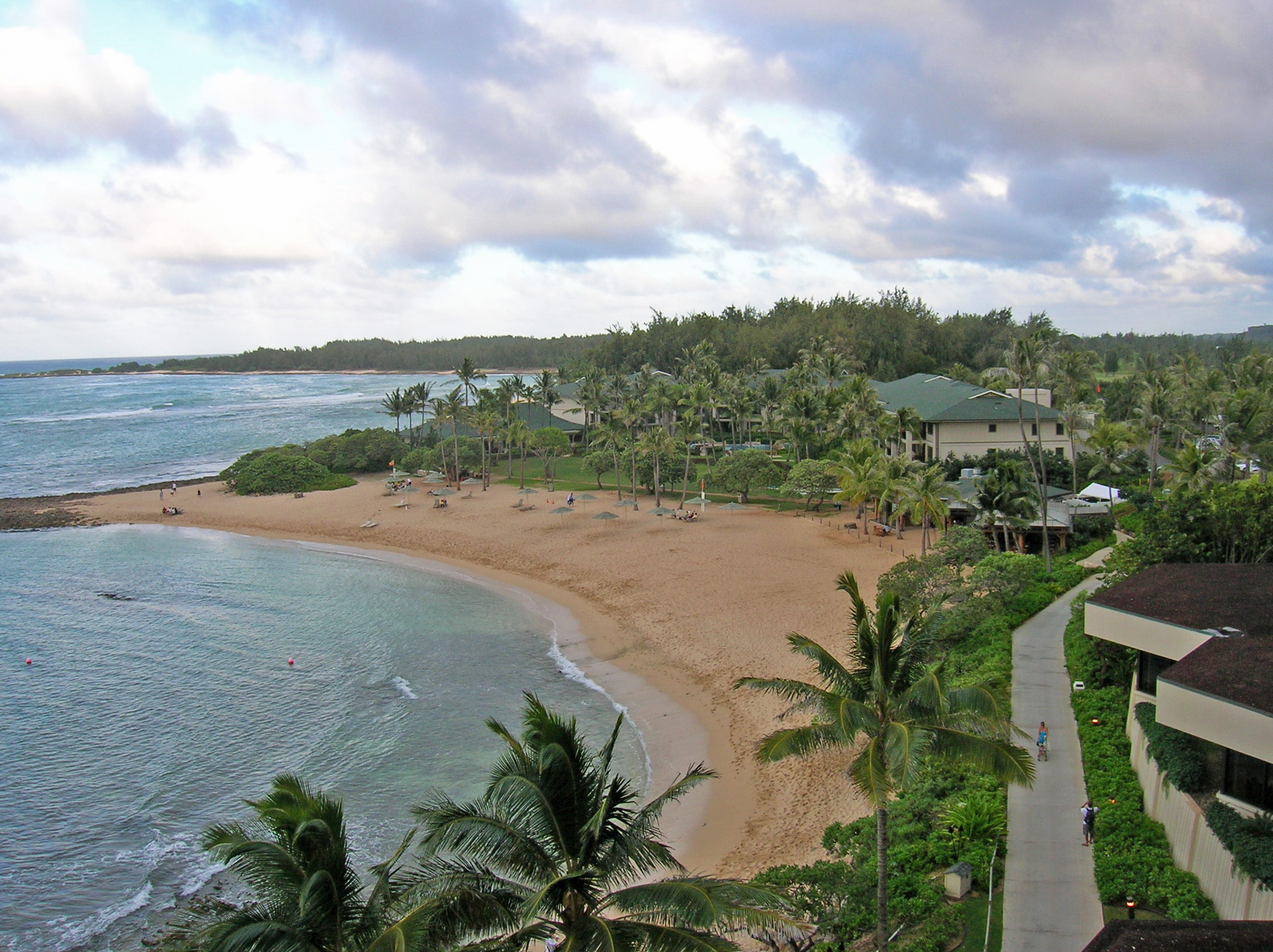 Nathaniel Counts, self